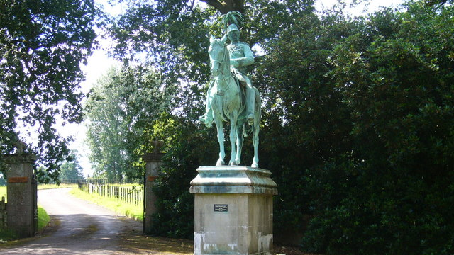 Statue of Lord Strathnairn near Liphook The statue was unveiled in 1895 on the Brompton Road in London. It was taken down in 1931 and kept in storage until 1964. Westminster Council gave it to the owner of Foley Manor, Liphook on condition that it would have reasonable public access.